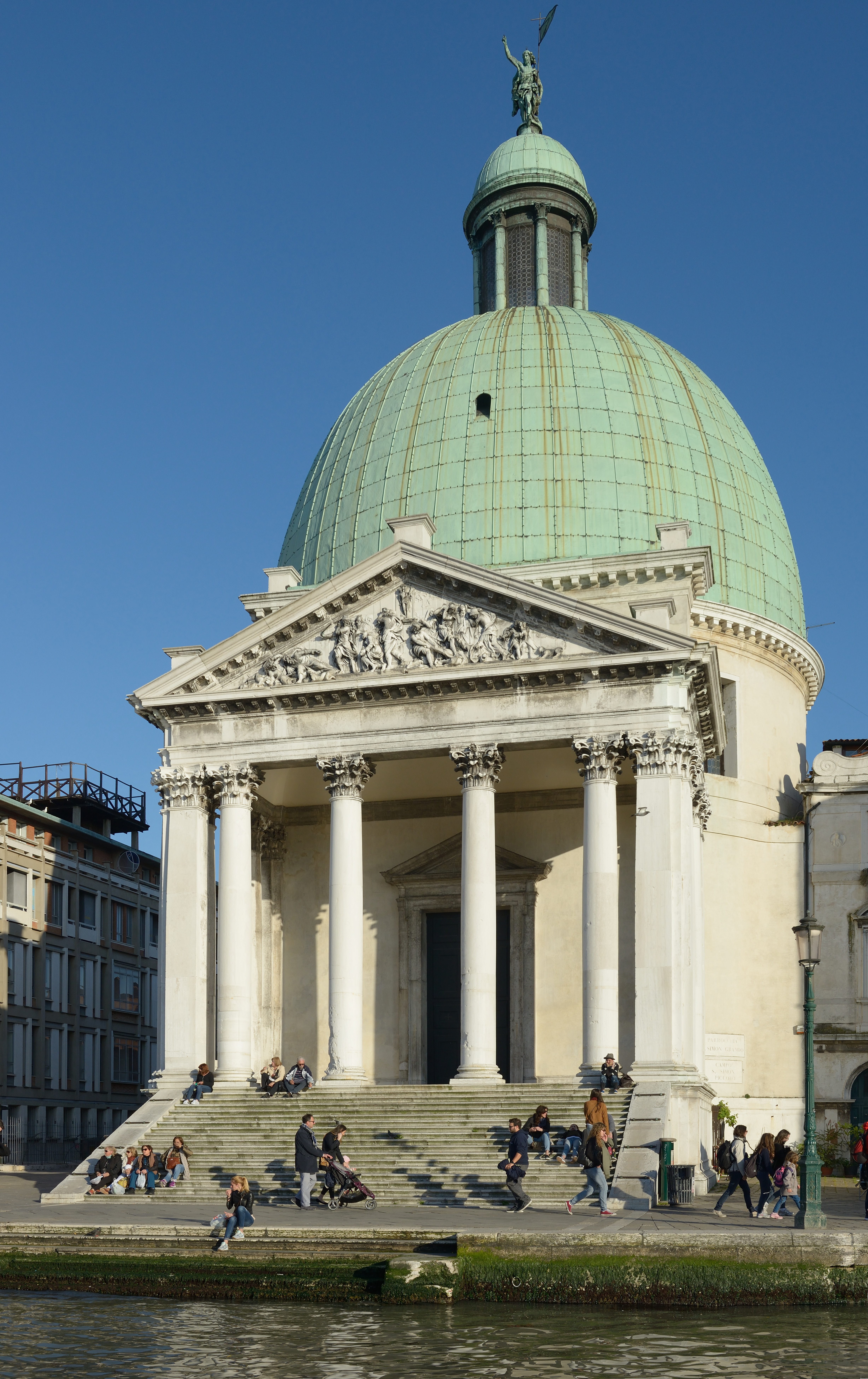 San Simeone Piccolo church on the Canal Grande. Eighteenth century by architect Giovanni Antonio Scalfarotto, Venice.